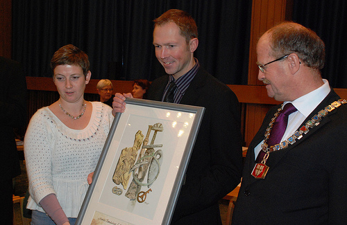 County mayor Gunnar Viken (right) and county council Annikken Kjær Haraldsen (left) awarding the Nord-Trøndelag fylkes kulturpris 2010 to cross country skier Frode Estil